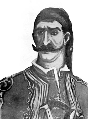 Tasos Karatasos, Greek resistance fighter in the 19th century.